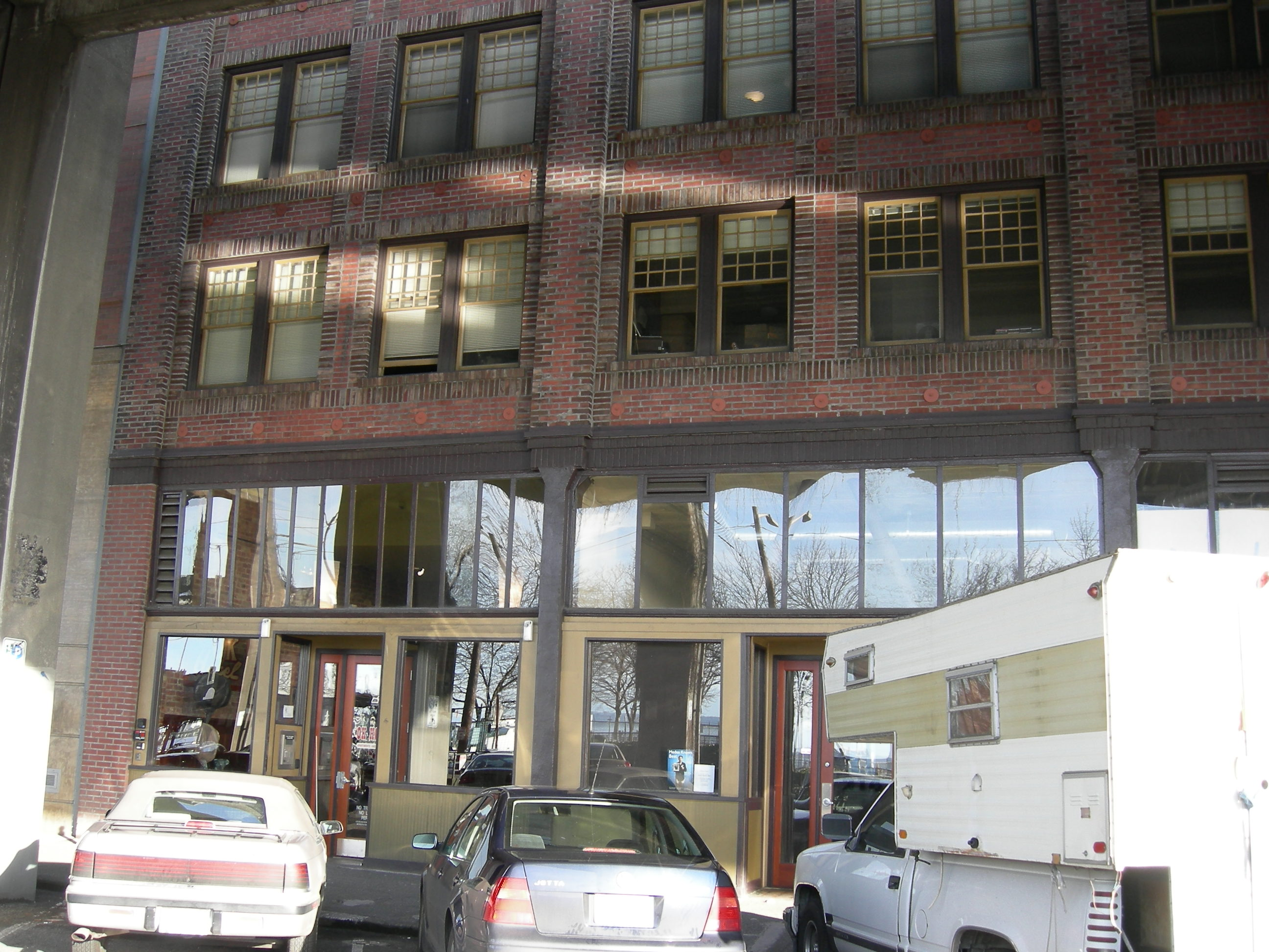 OK Hotel, 212 Alaskan Way S., Pioneer Square neighborhood, Seattle, Washington, USA. For more information about the building, see Summary for 212 Alaskan WAY / Parcel ID 5247800090, Seattle Department of Neighborhoods. After a history as a low-end hostelry, in the late 1980s and early 1990s, the ground floor was first a cafe, then later a bar, and the building was a significant performance venue and alternative art space; it was damaged in the 2001 Nisqually Earthquake, then remodeled as apartments. Even now, the lobby hosts art exhibits.